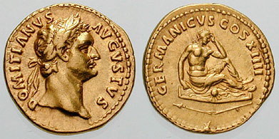 Roman coin: gold aureus of Domitian (81—96 CE). Struck 88-89 AD. DOMITIANVS AVGVSTVS, laureate head right / GERMANICVS COS XIIII, Germania seated right on shield, mourning; broken spear below.